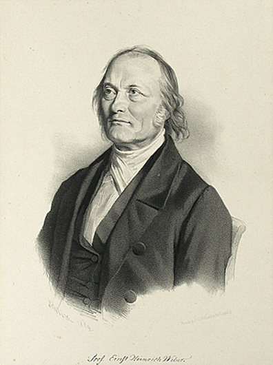 The portrait of psychologist Ernst Heinrich Weber (1795—1878)